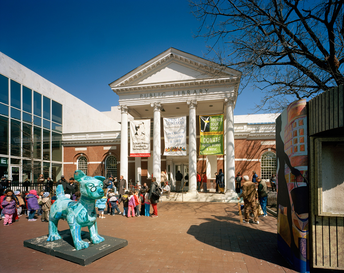 The Ferguson Library in Stamford, Connecticut.